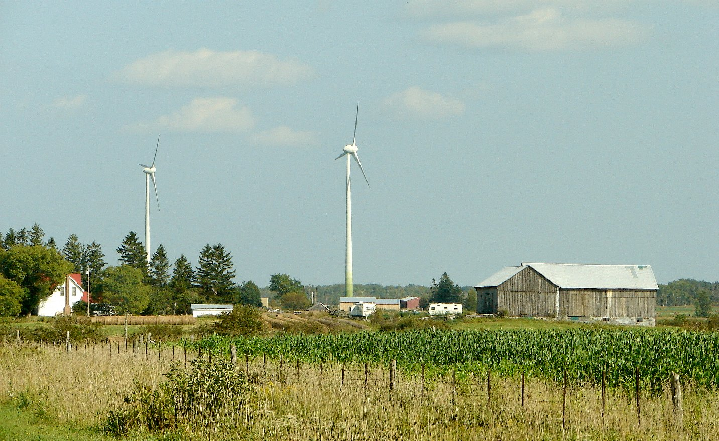 Central Manitoulin (near Spring Bay), Ontario, Canada